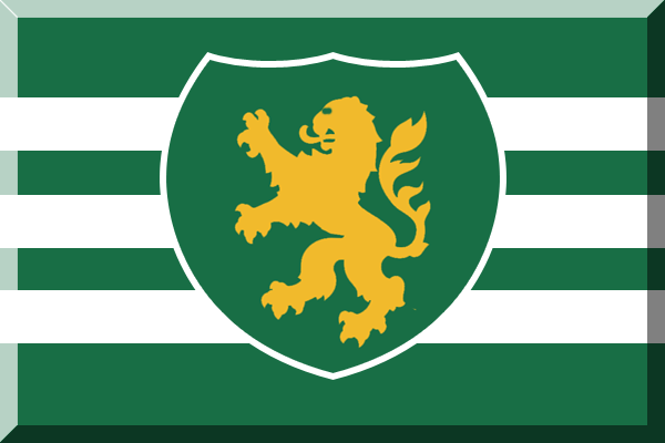 Fantasy football flag for Sporting CP team